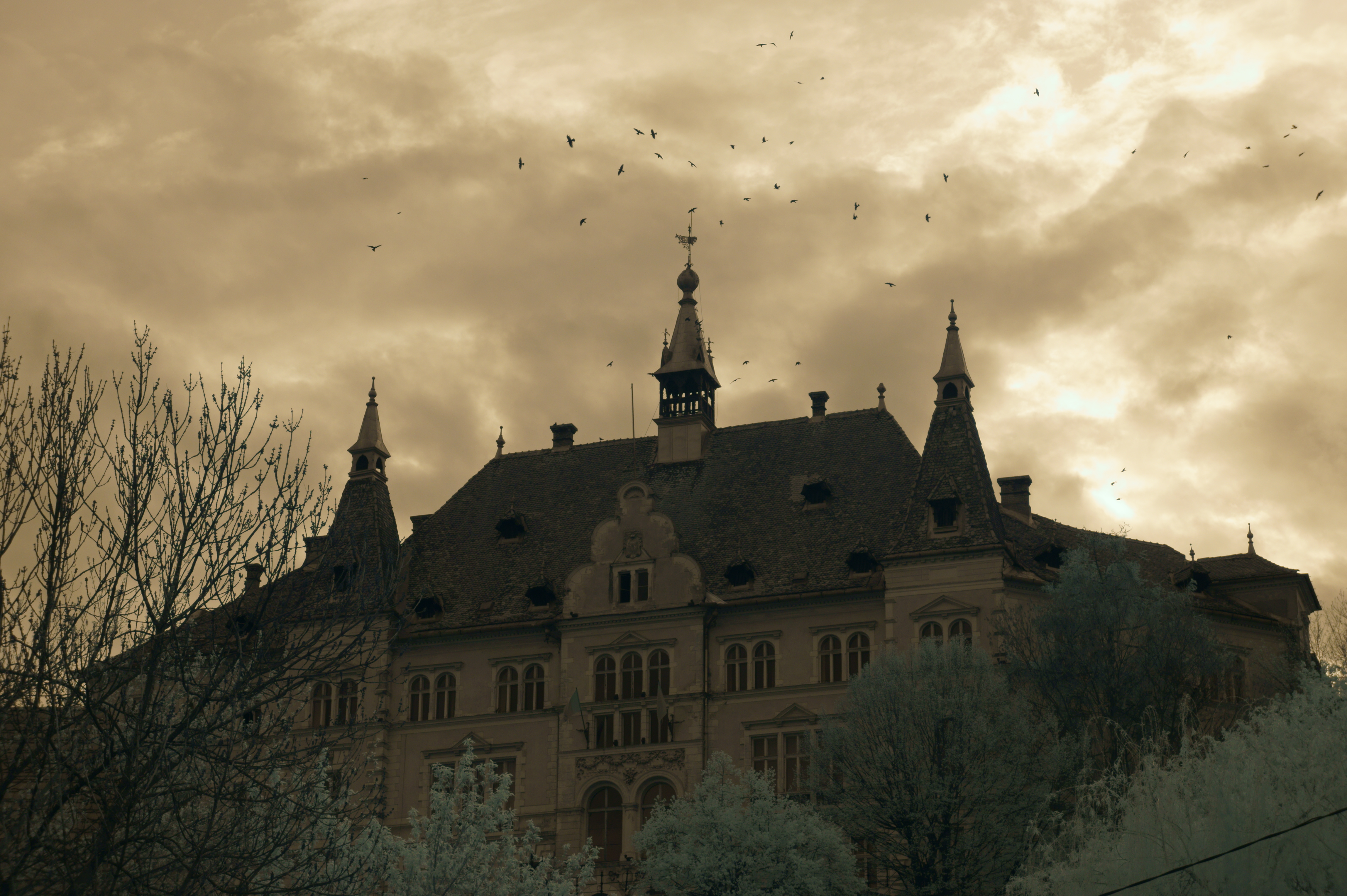 Mayor House